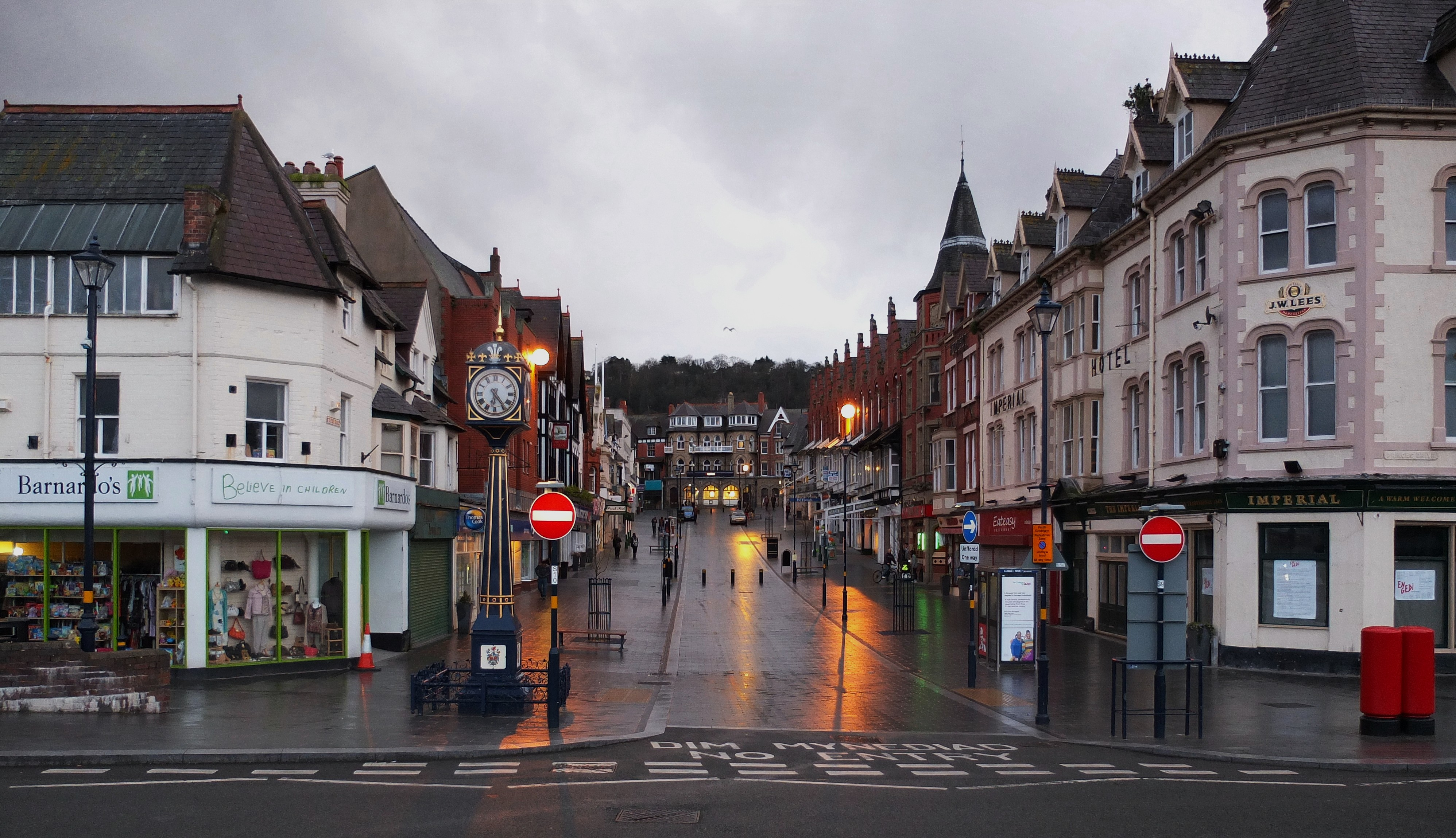 JPEG straight out of camera , no PP